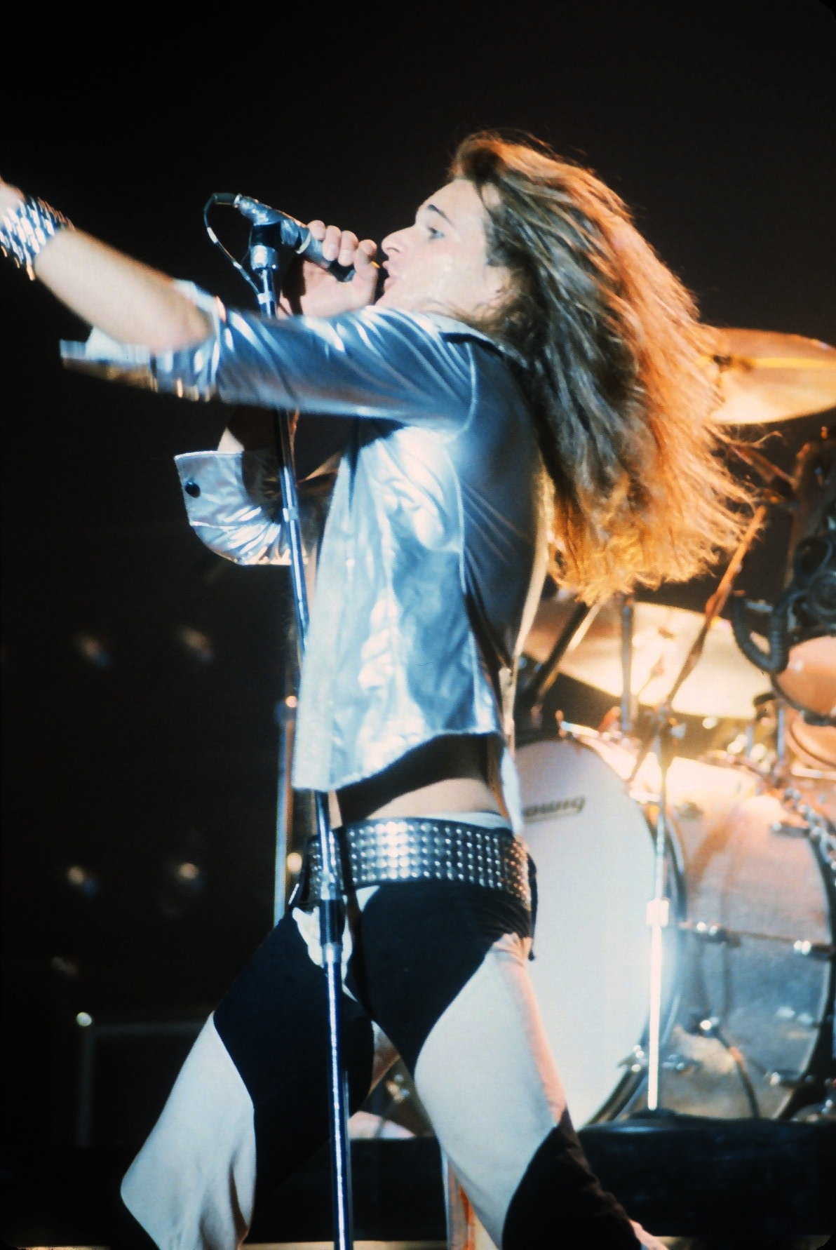 David Lee Roth, singer of Van Halen, performing live in 1978.